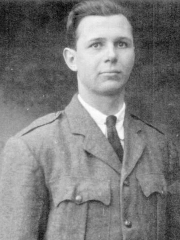 Photograph of IRA member Michael Flannery, taken 1921.